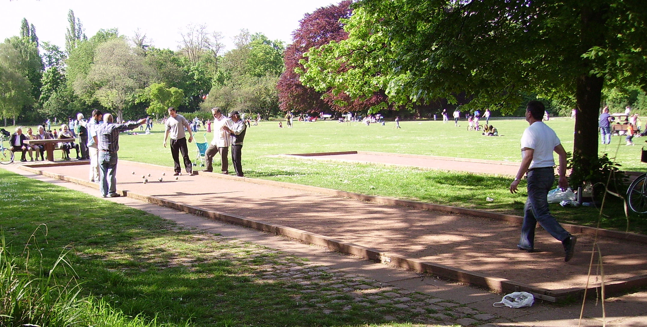 Ludwigshafen-Friesenheim